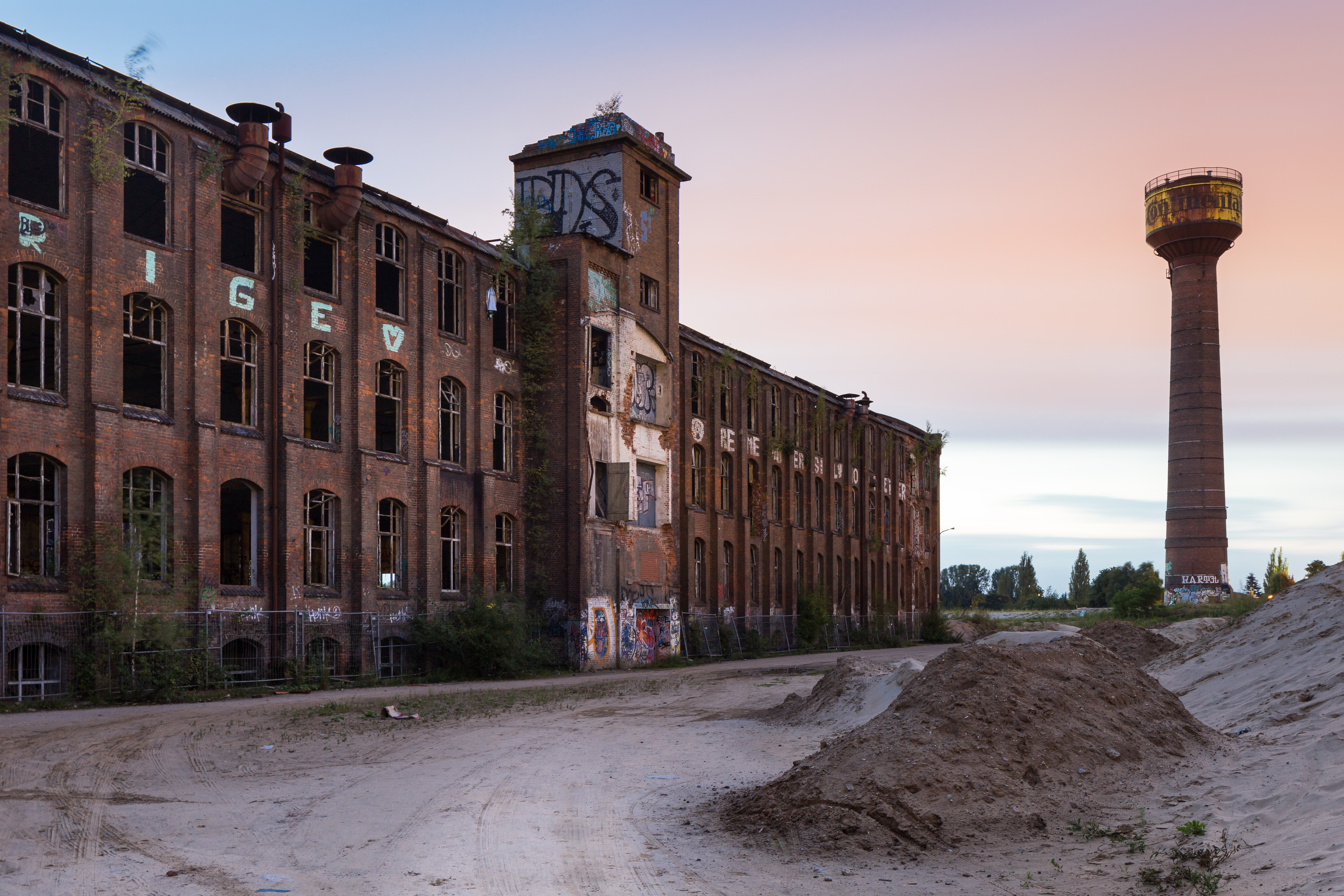 Remains of the former tire and rubber products factory of Continental AG, site Limmer (Hannover, Germany). The plant was located on a peninsula formed by two canals. The site is in a state of transformation into a housing area, named Wasserstadt Limmer (=water town Limmer). The buildings spared by demolition are protected by their status as cultural heritage (including the water tower).